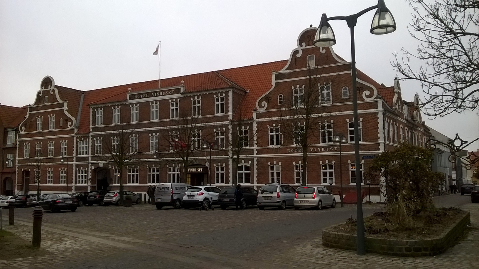 Hotel Vinhuset (Hotel Winehouse) in Næstved, Denmark.